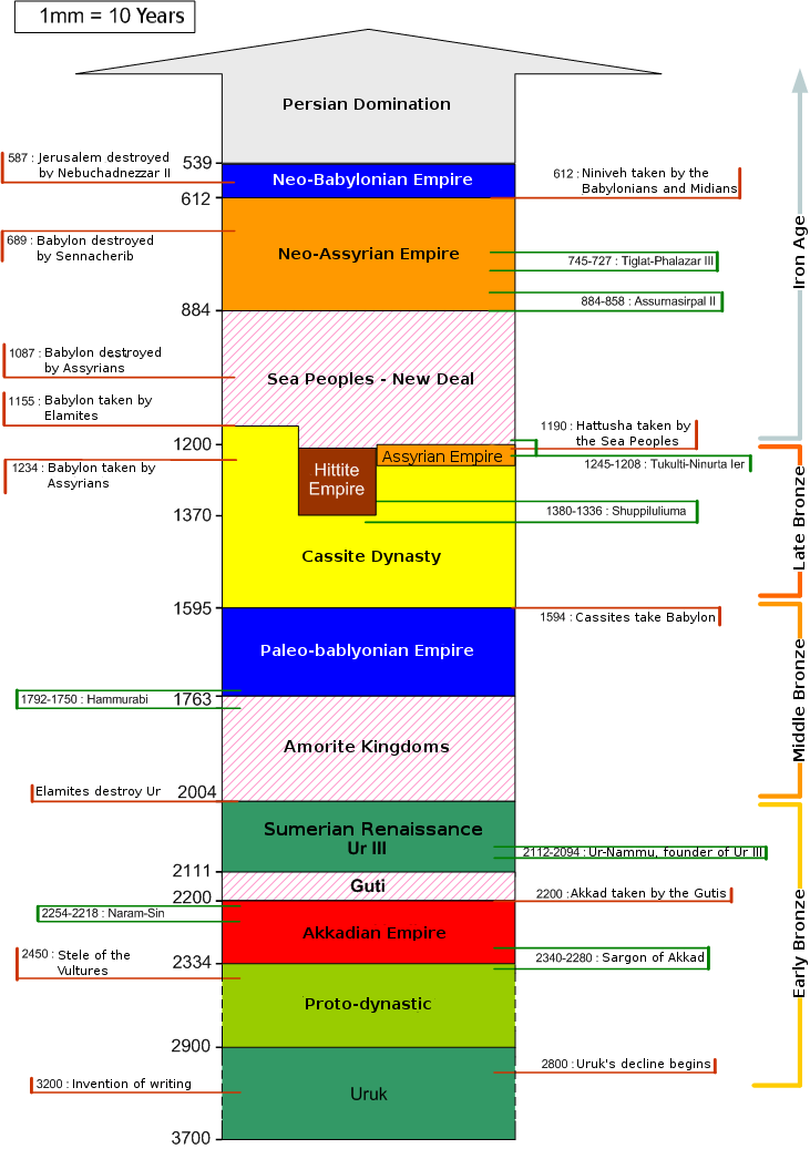 A synthetized chronology of Mesopotamia